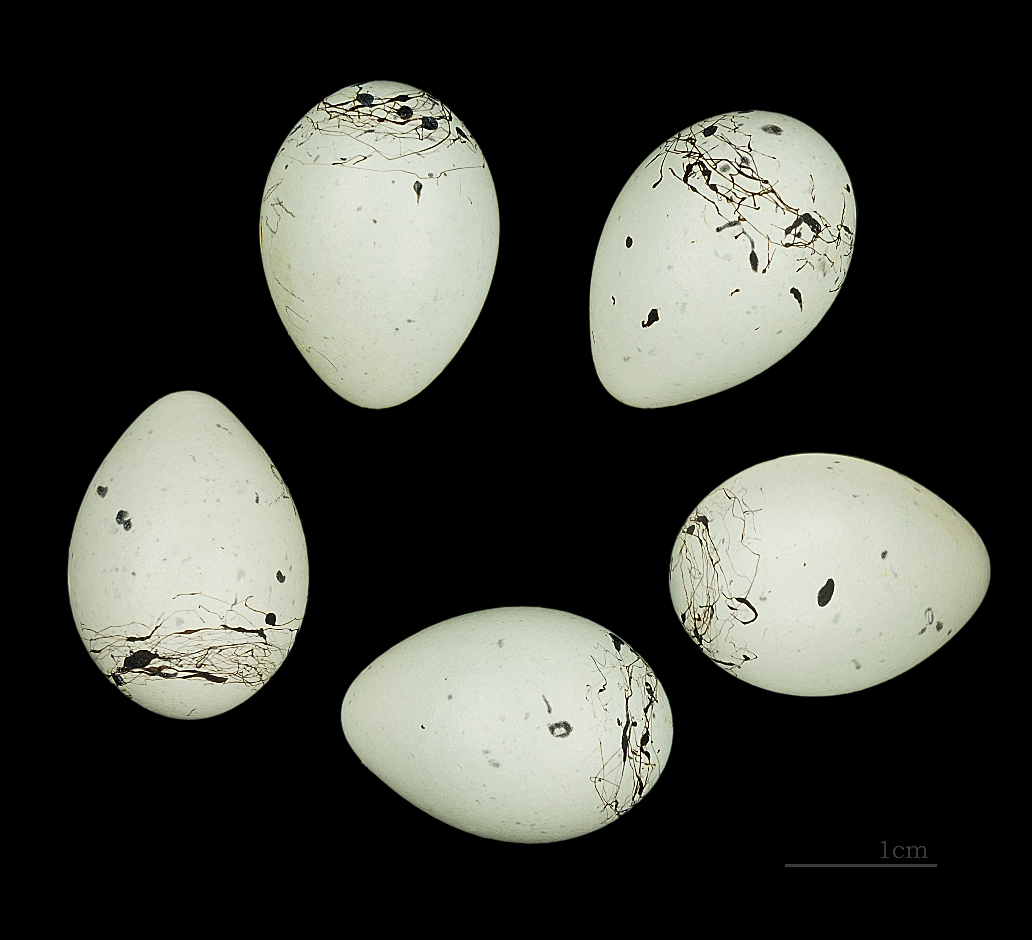 Egg of Meadow Bunting. Collection of René de Naurois / Jacques Perrin de Brichambaut.